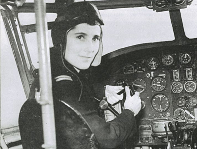 Diana Barnato Walker in the pilots seat of an Airspeed Oxford serving with the Air Transport Auxillary